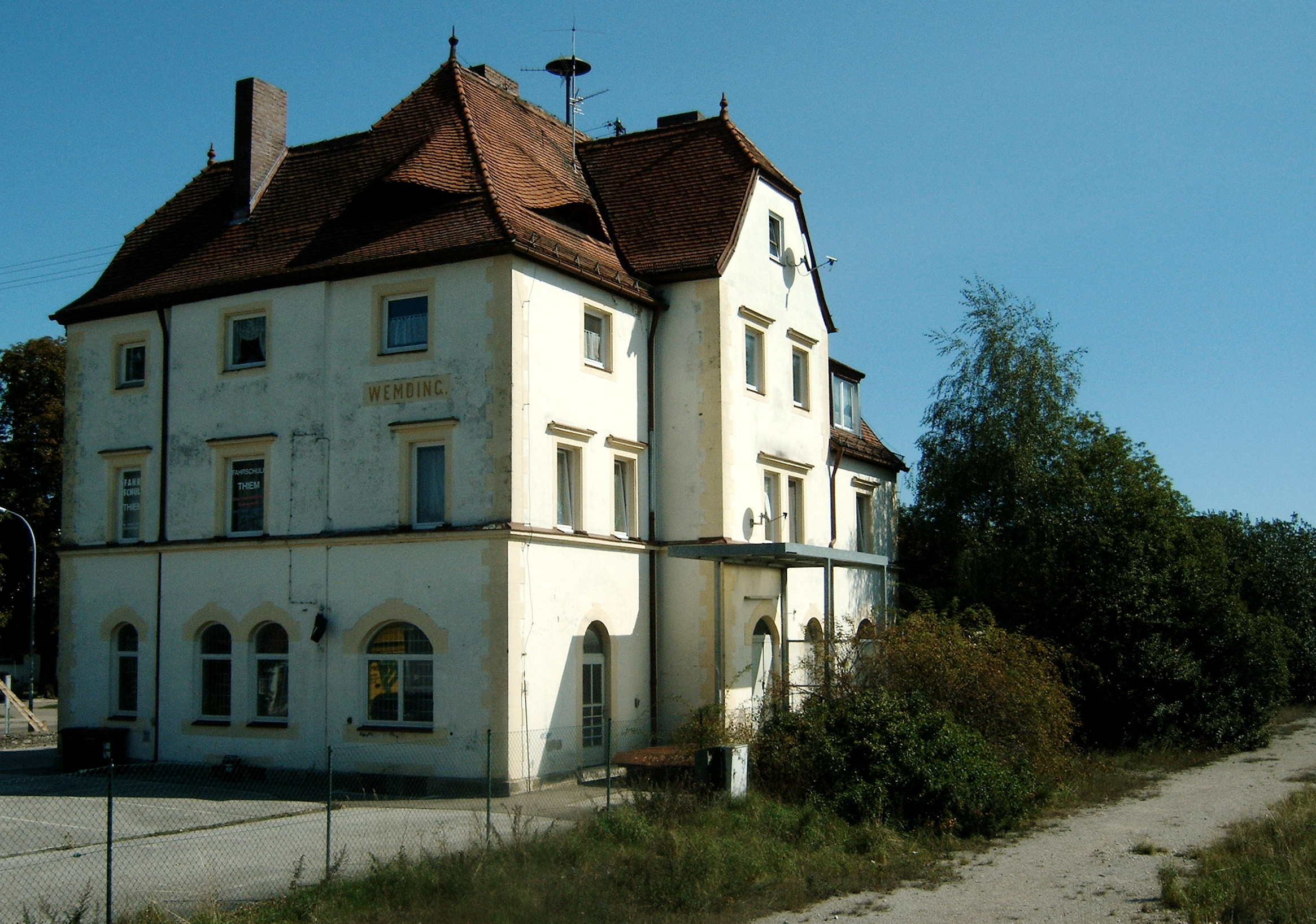 Former train station of Wemding, Germany